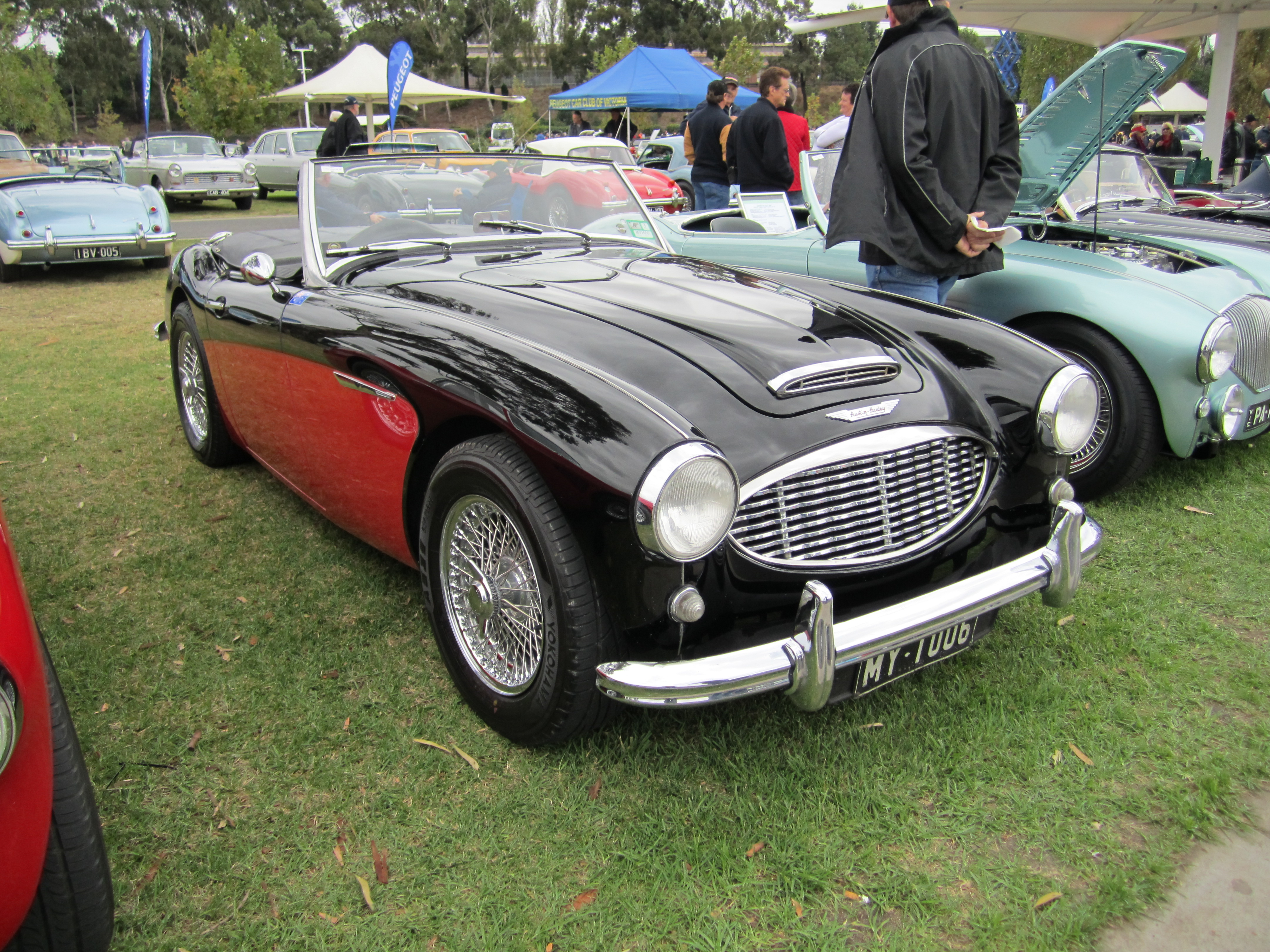 Built from 1958-59 (new grille) Engine; 2639 6 cyl ( from the Austin Westminster)